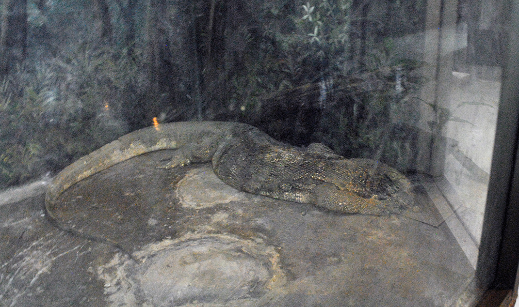 Varanus salvator in Pata Zoo